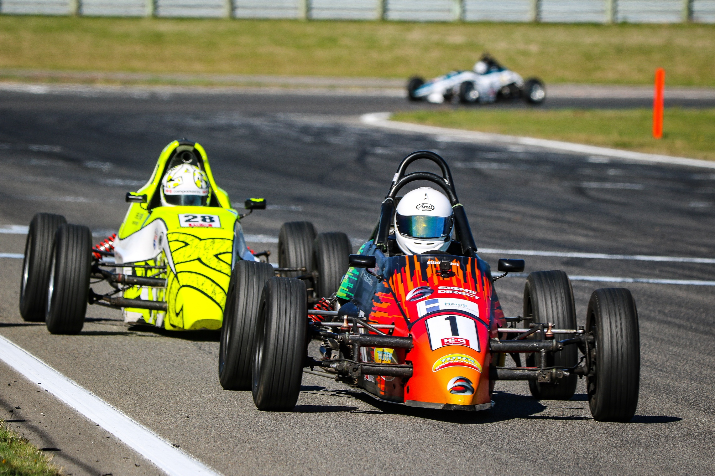 Current Champion Reece Hendl-Cox